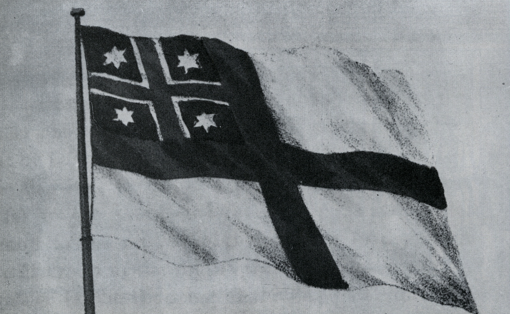 On 20 March 1834, 25 rangatira (chiefs) from the Far North and their followers gathered at Waitangi to choose a flag to represent New Zealand. A number of missionaries and settlers and the commanders of 10 British and three American ships were also in attendance. Following an address by British Resident James Busby, each chief was called forward in turn to choose a flag, while the son of one of the chiefs recorded the votes. The preferred design, a flag already used by the Church Missionary Society, received 12 votes, with the other two options receiving 10 and three votes respectively. Busby declared the chosen flag the national flag of New Zealand and had it hoisted on a central flagpole to the accompaniment of a 21-gun salute from the warship HMS Alligator. The above image is of the United Tribes flag from the 'Children of the Country' publication School Journal part 4 no.1, 1967 by Alison Drummond. Archives New Zealand Reference: AAAD W2943/1 For updates on our On This Day series and news from Archives New Zealand, follow us on Twitter